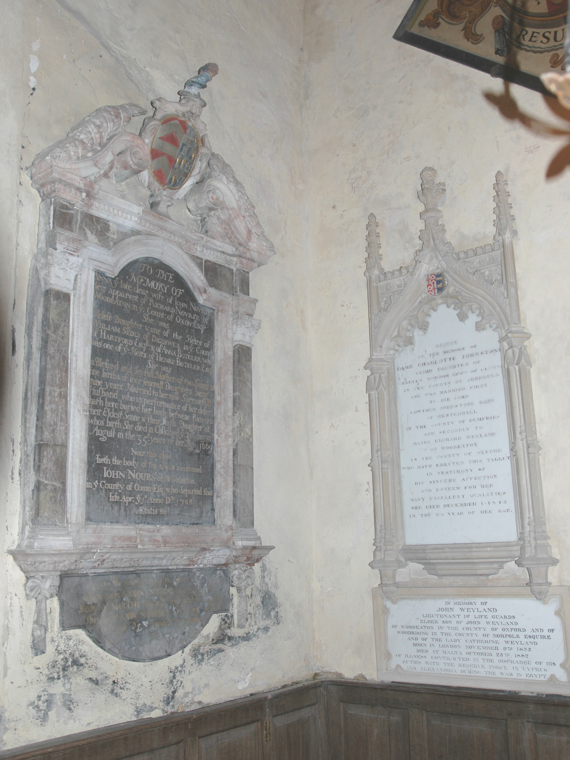 Church of England parish church of the Holy Rood, Woodeaton, Oxfordshire: monuments to Anna Nourse (1669) and John Nourse (1708); Charlotte Johnstone (1813) and John Weyland (1882)